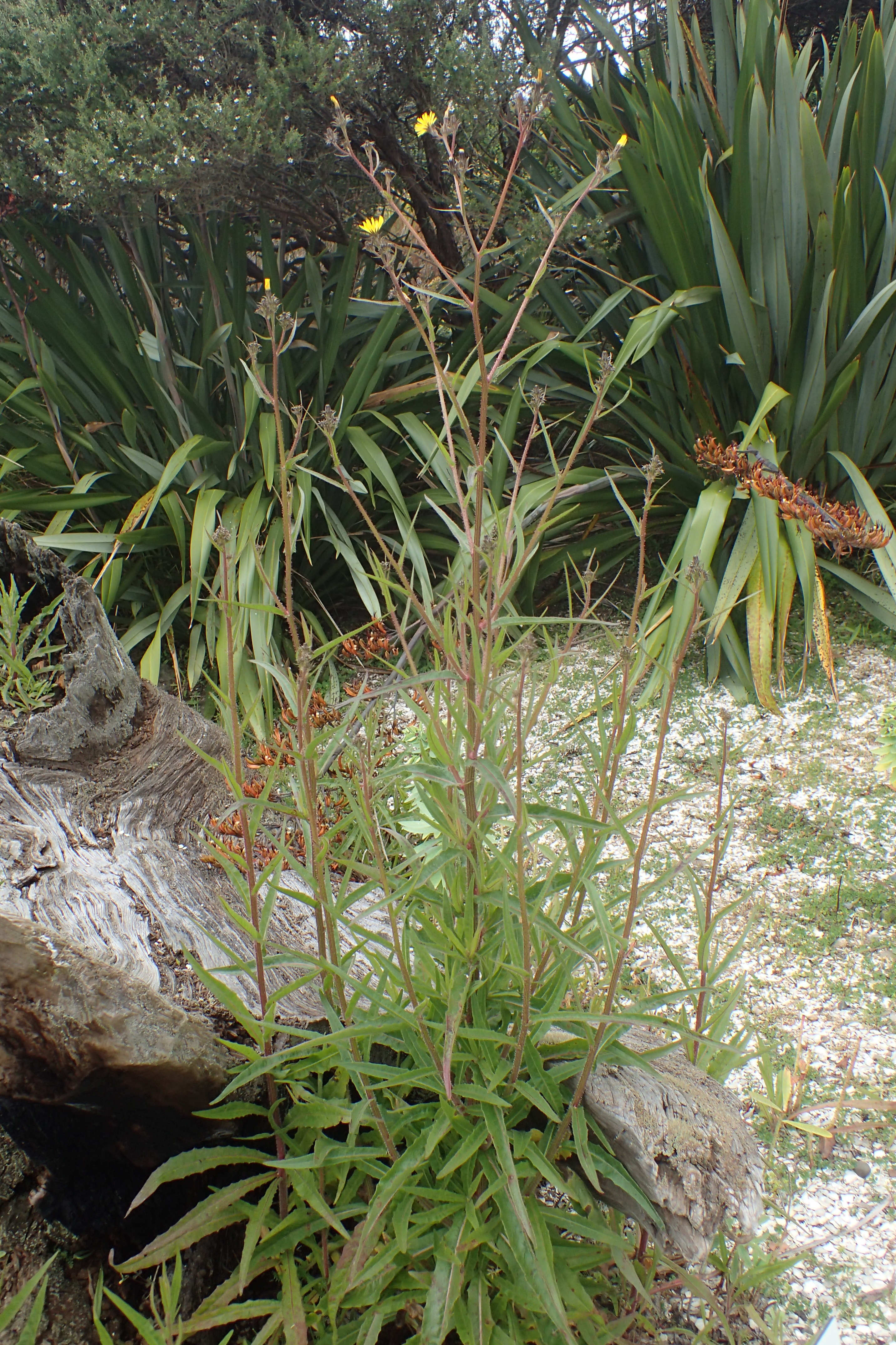 Picris burbidgeae in Auckland Botanic Gardens